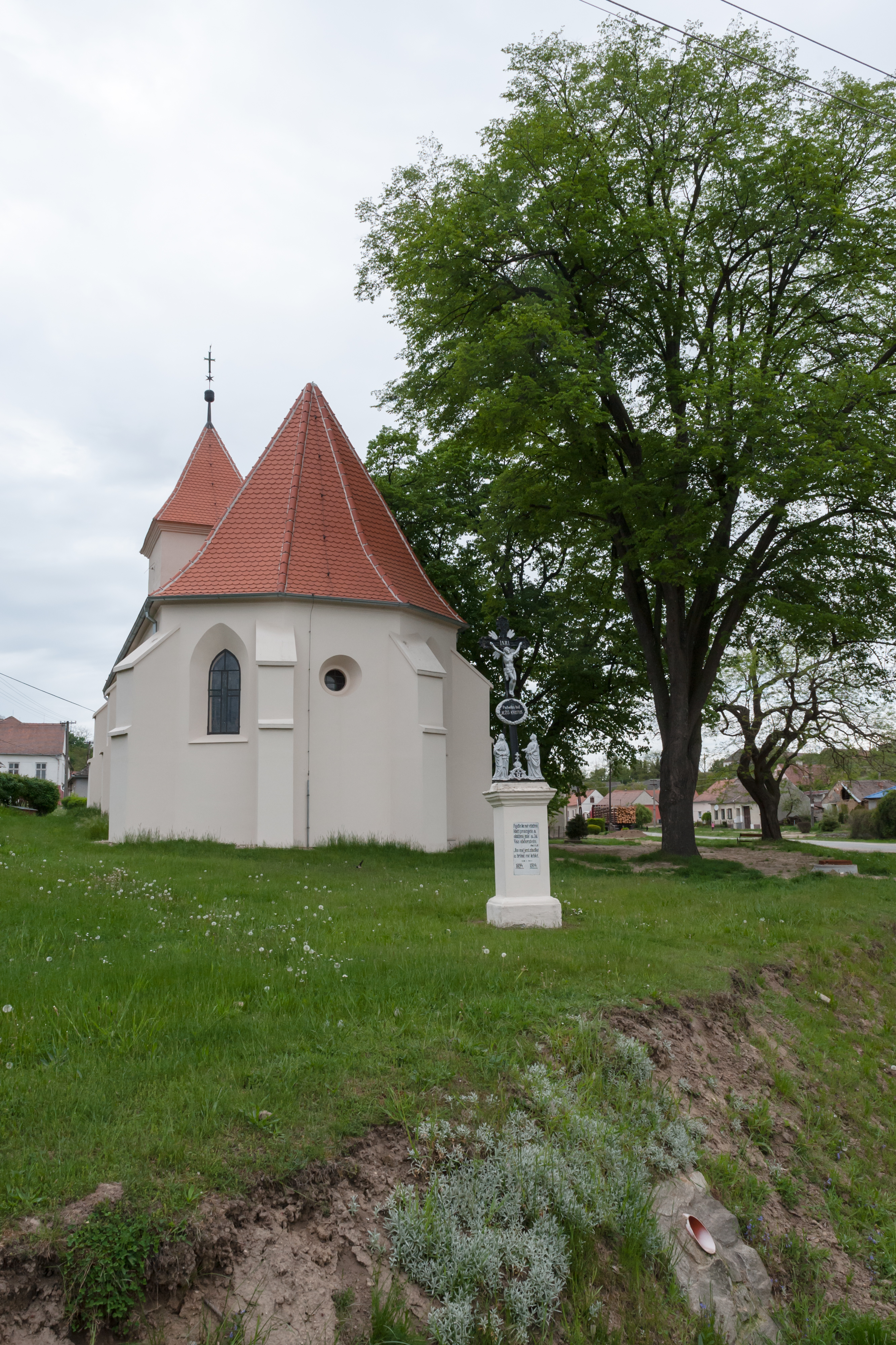 Wikitown Hustopeče: Morašice